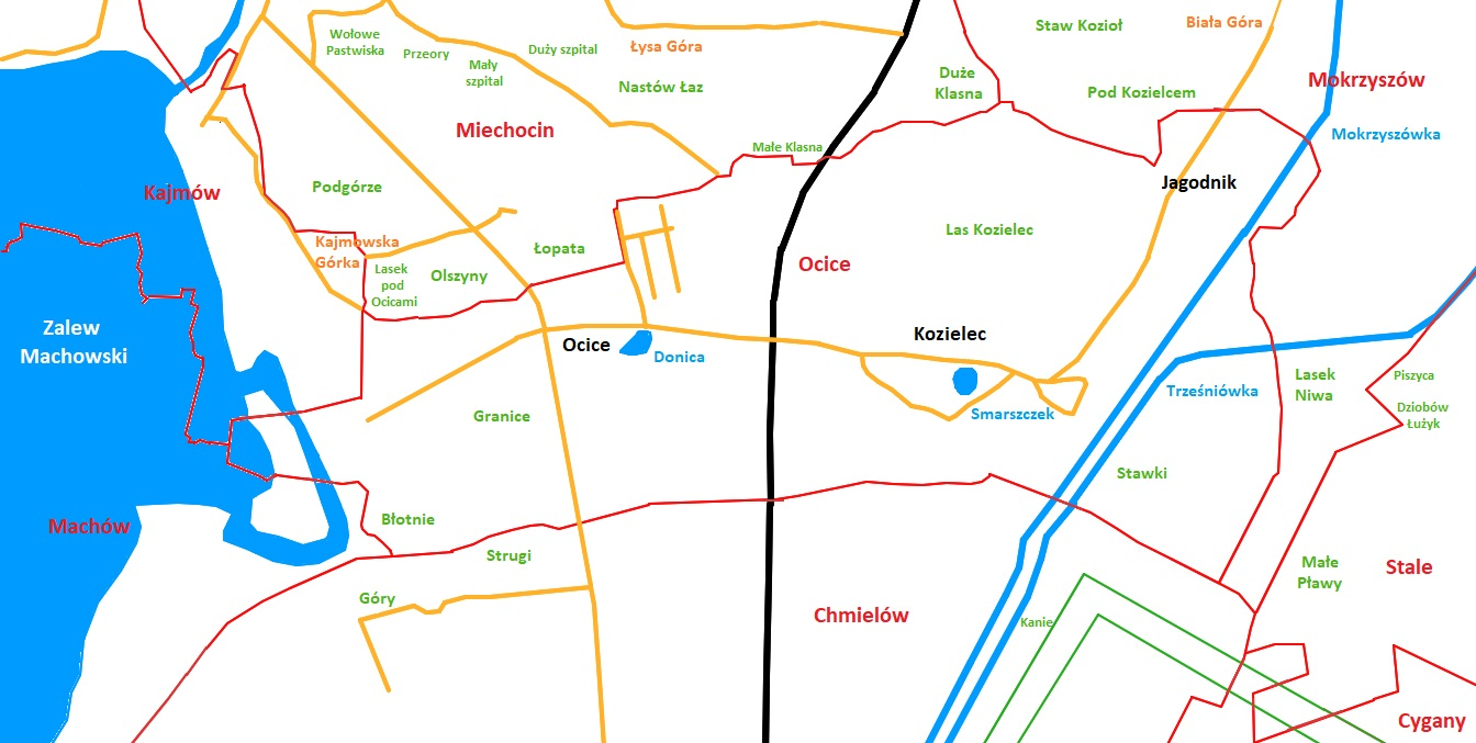 Map of Ocice, Tarnobrzegs district in Poland